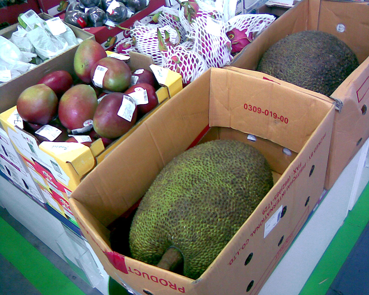 Jackfruit, mango, etc.